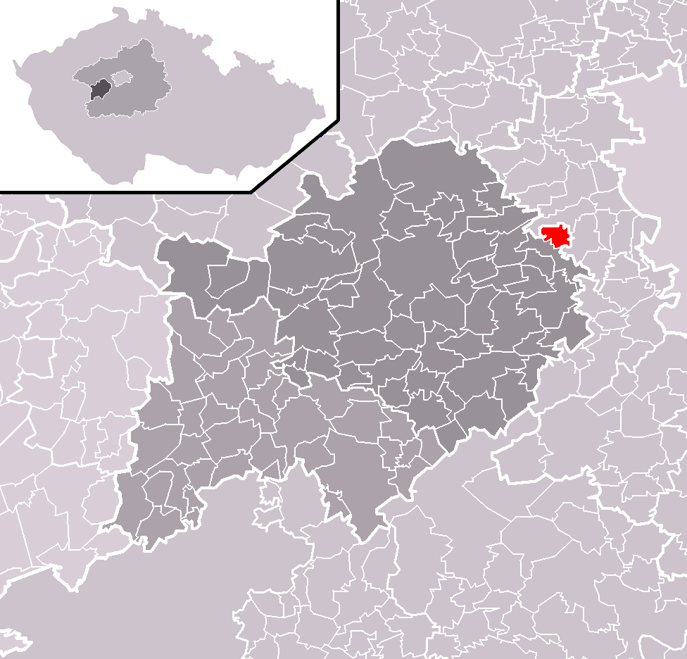 Location of Mezouň municipality within Beroun District and administrative area of Beroun as a Municipality with Extended Competence.